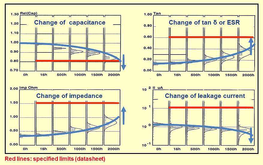 Test results of a lifetime test from electrolytic capacitors as explanation of wear out failures